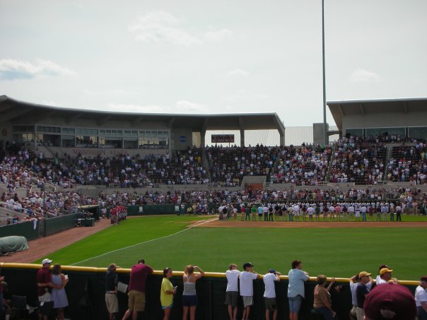 Photo of Dudy Noble Field at Mississippi State University before a game, viewed from behind the right field wall.